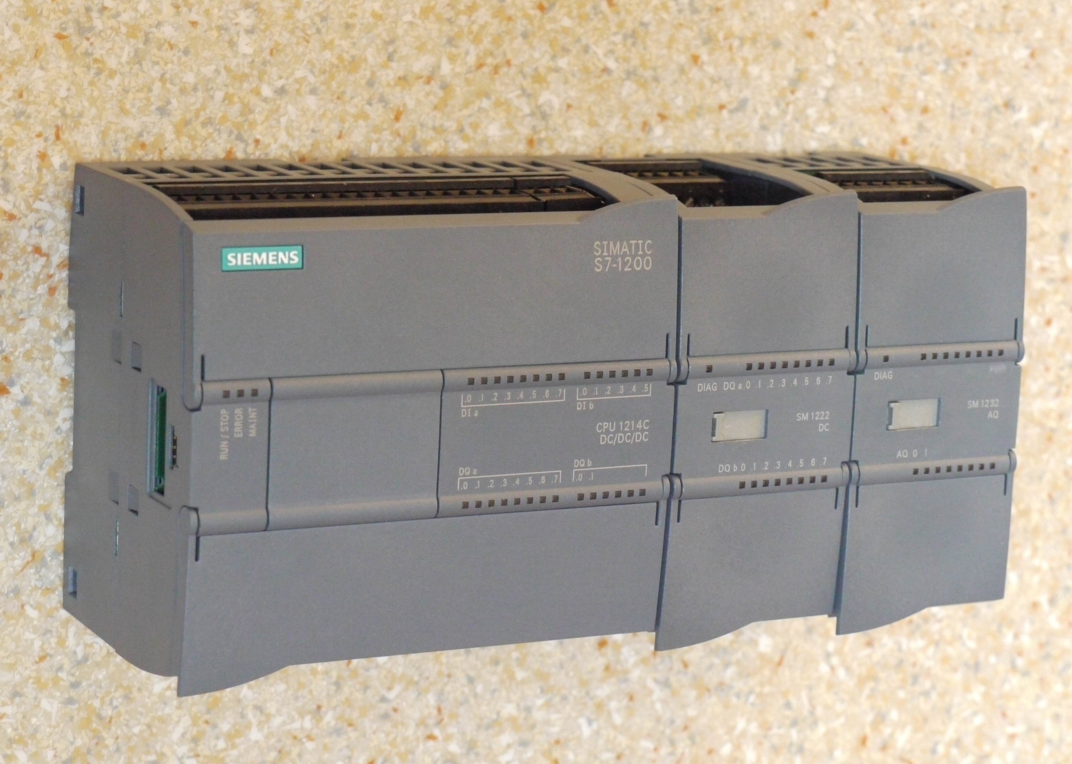 Programmable logic controlle Siemens SIMATIC S7-1200